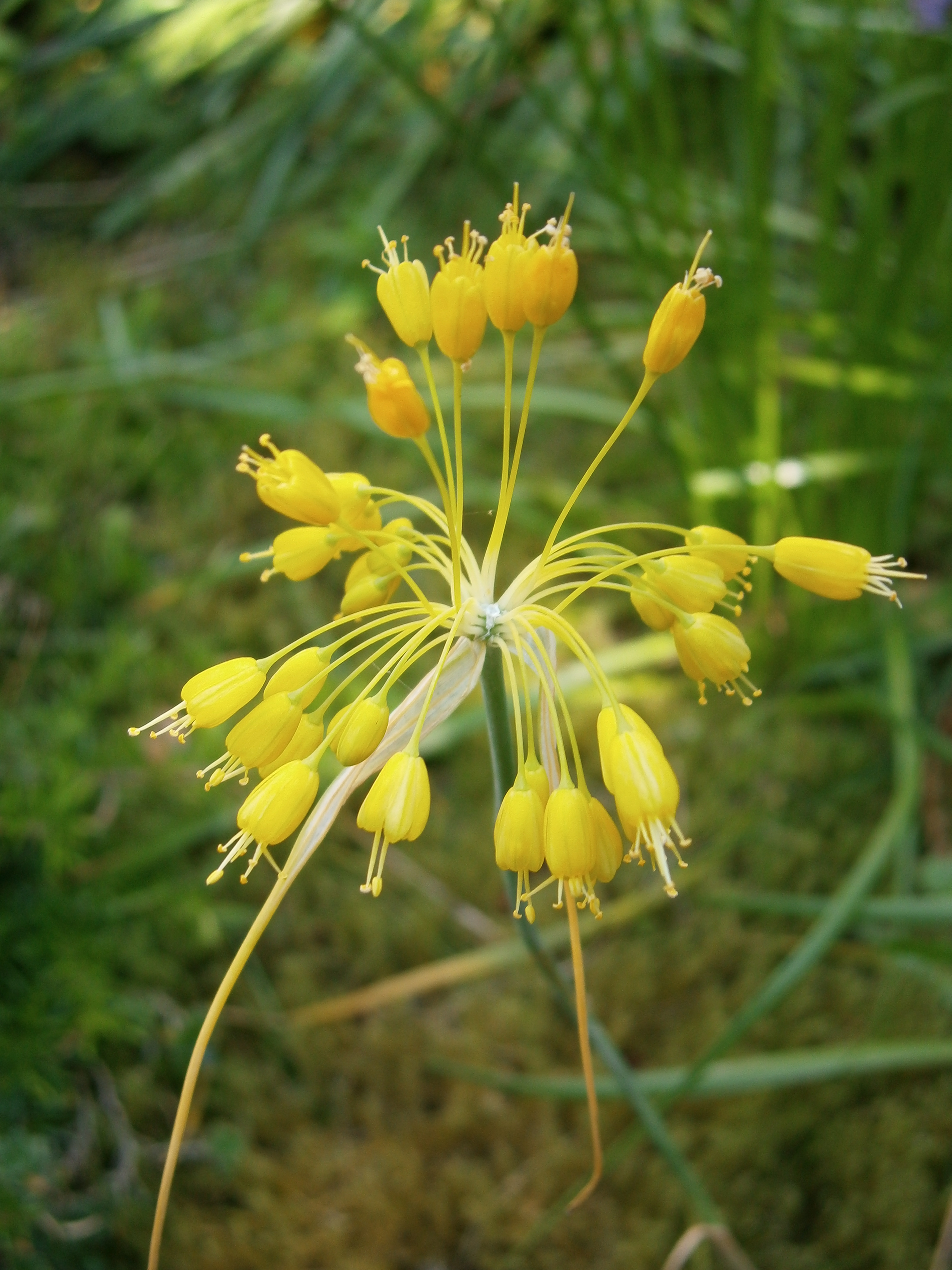 Allium flavum